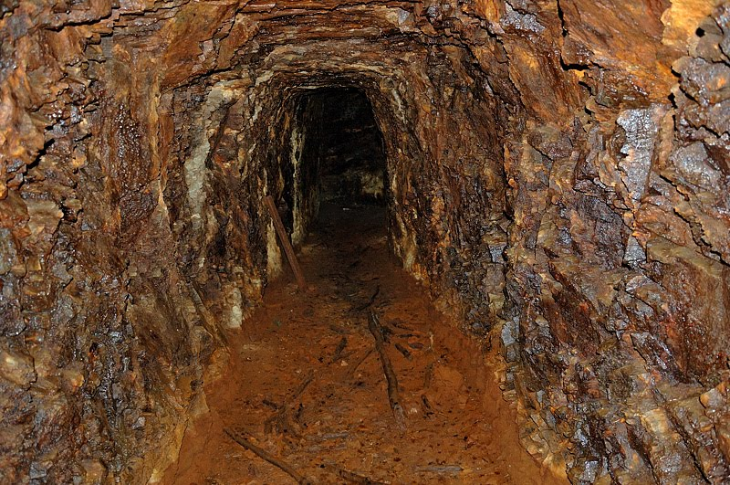 Abandoned adit in Kuchyňa